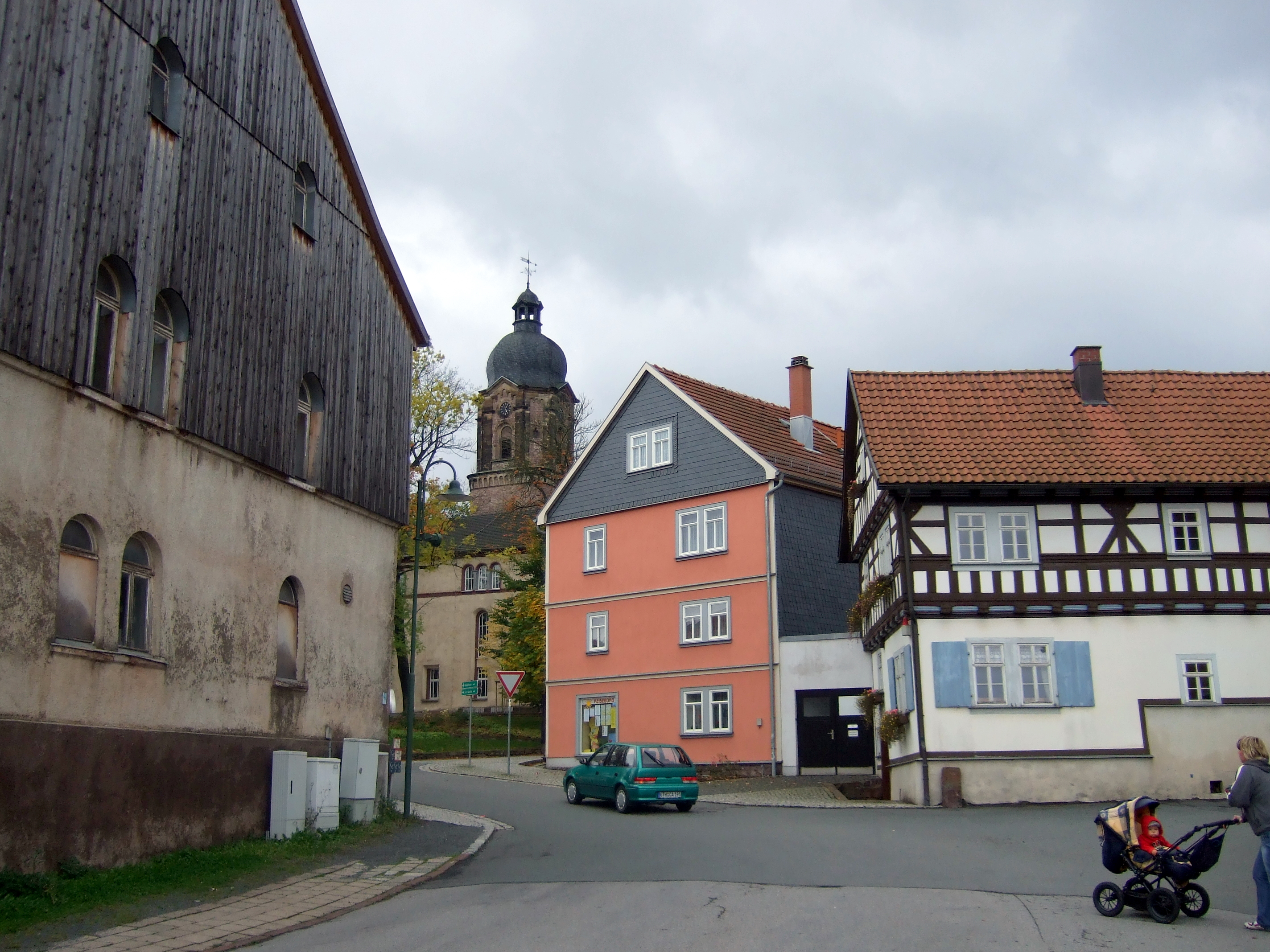 Church Lutherkirche and Museum of local history in Tambach-Dietharz, Germany.